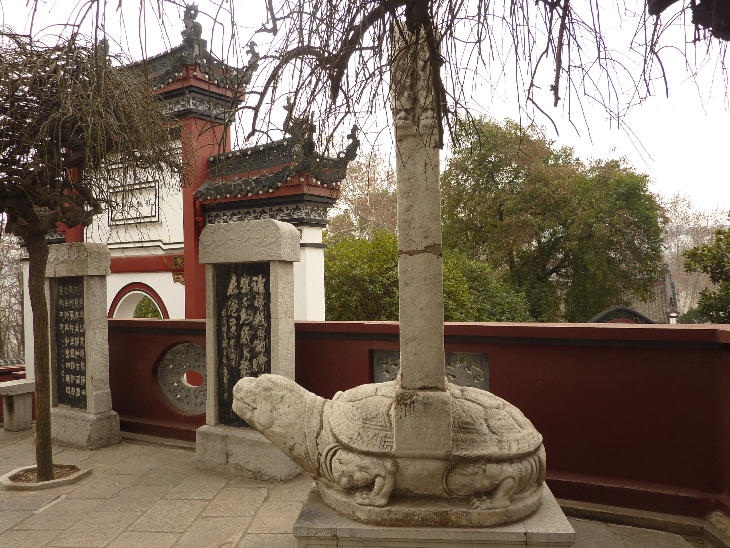 A Ming-era bixi turtle with a blank stele near the temple of Yu the Great, part of the "Qingchuan Pavilion" complex in Wuhan.